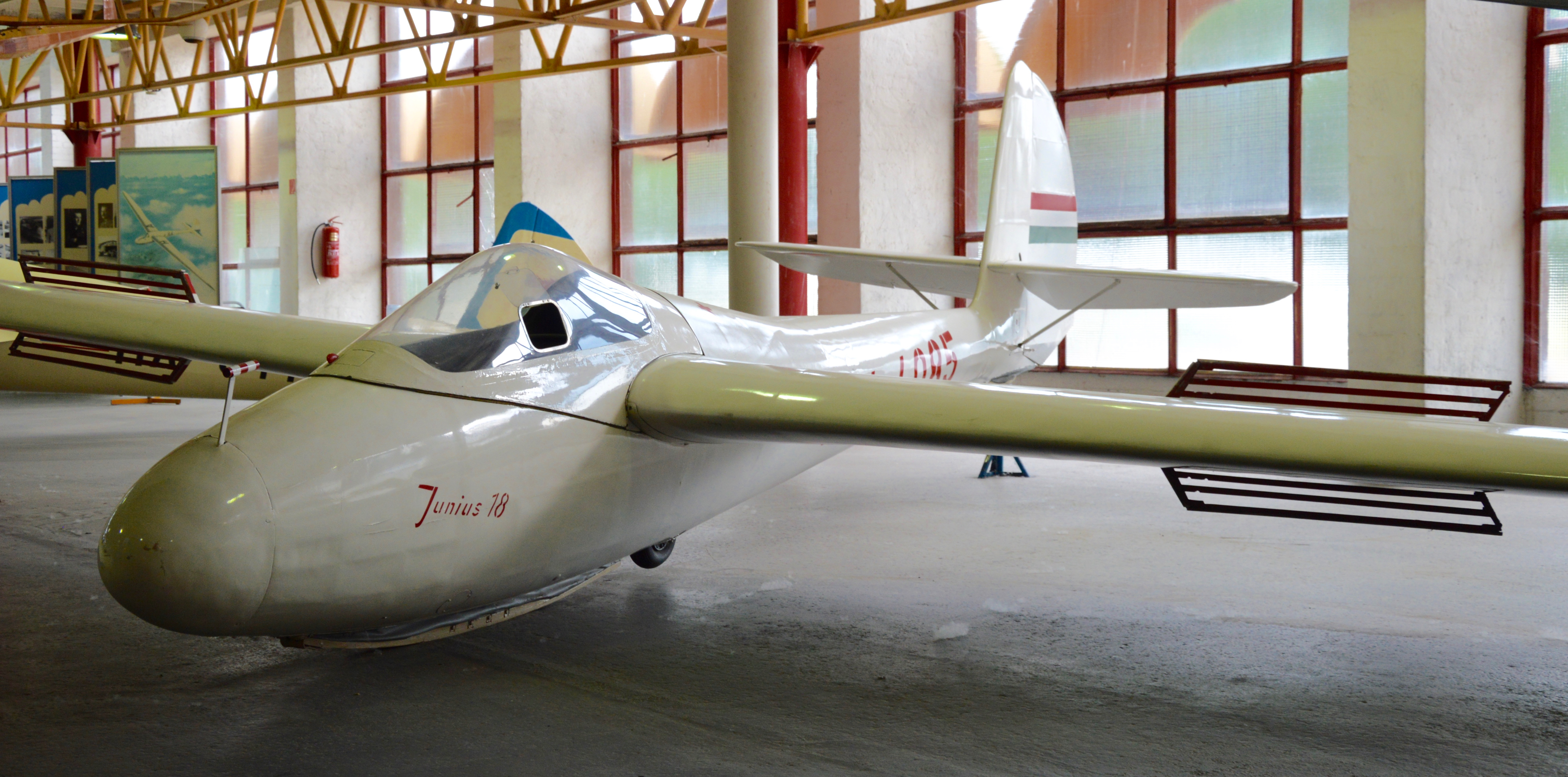 Rubik R-22S Június 18. Hungarian hight performance glider